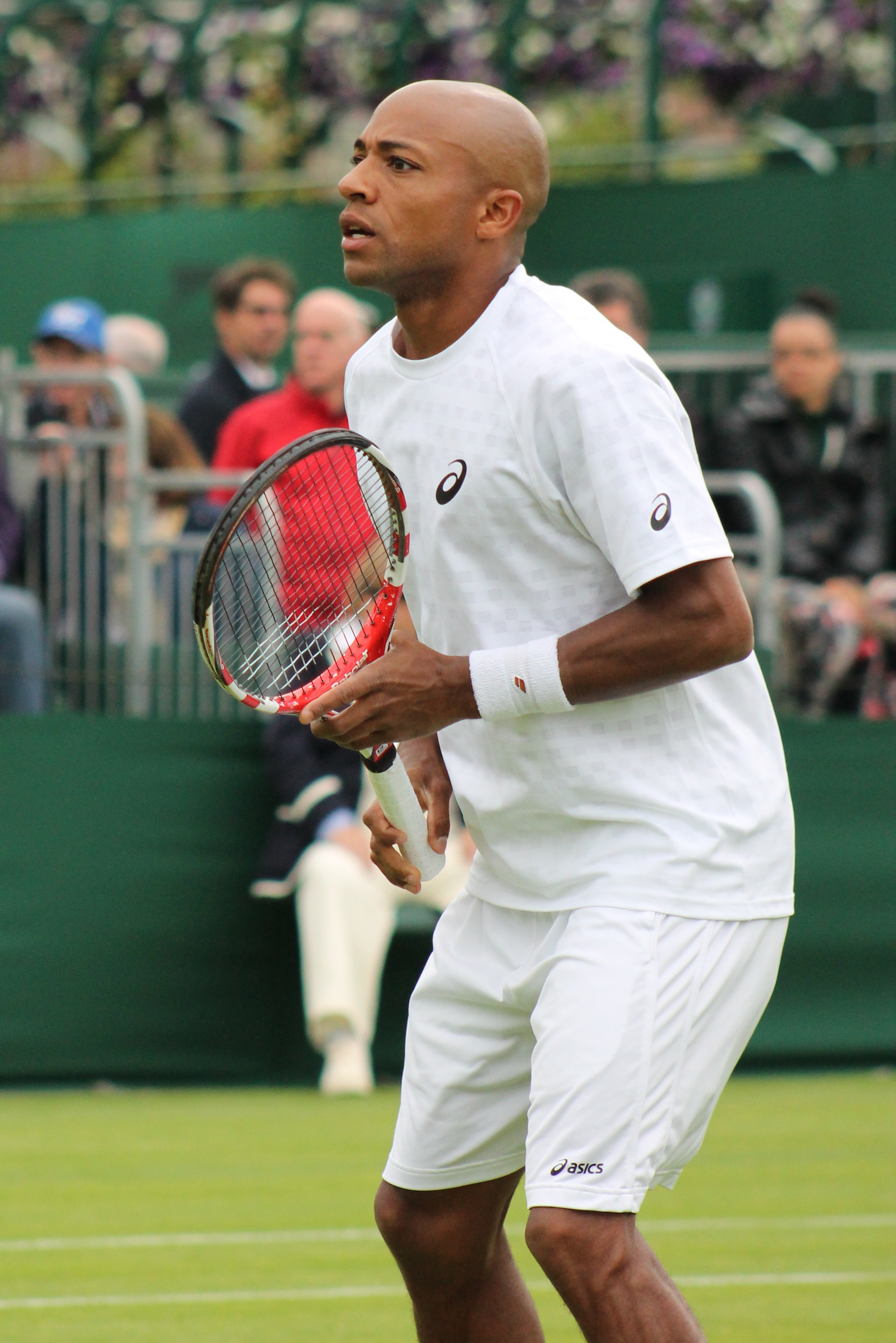 Nicholas Monroe playing in 1st Round of the Mens Doubles at Wimbledon 2013, Court 15, on 24 June 2013; partner was Simon Stadler (GER); opponents Purav Raja (IND) & Divij Sharan (IND)